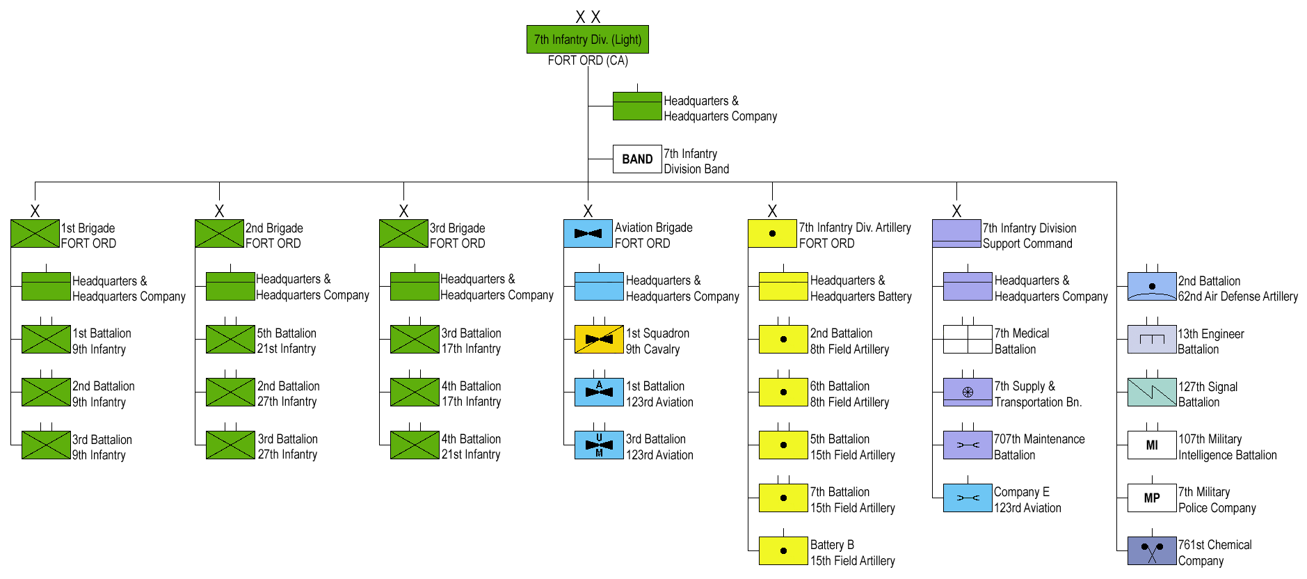 US Army 7th Infantry Division Structure in 1989